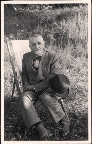 italian doctor, beginning of the twentieth century